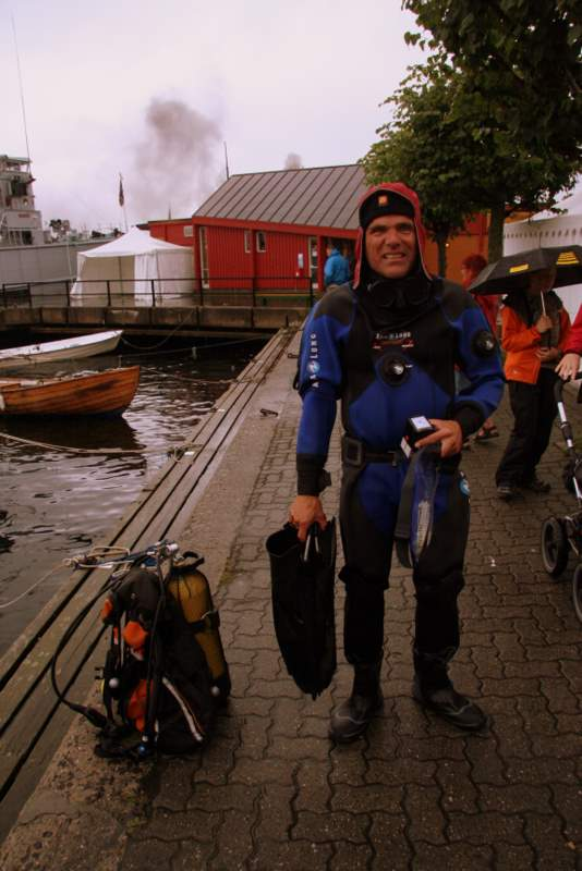 Chief of Underwaterpostoffice Håkon Sandvik